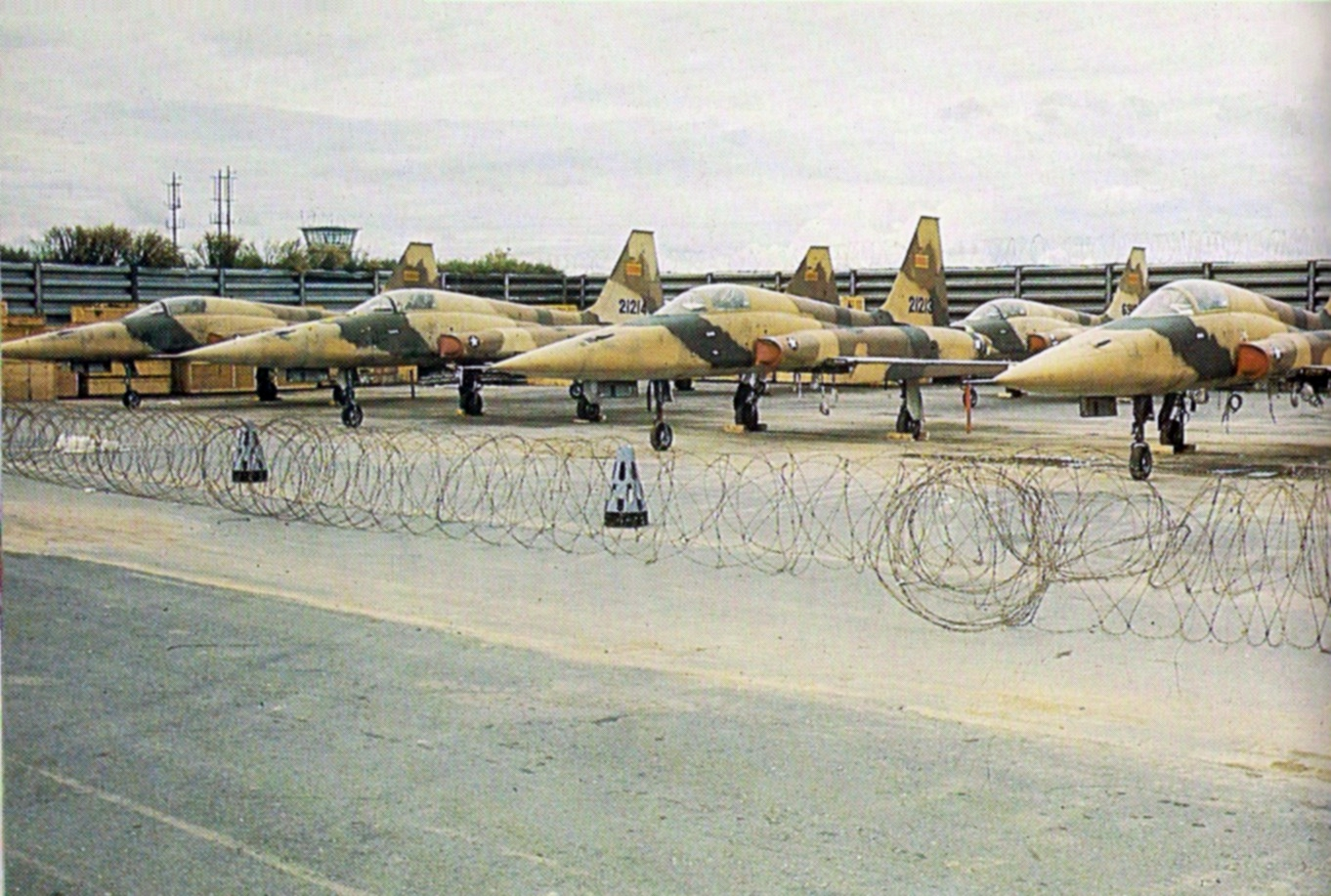 Northrop F-5A Freedom Fighters in South Vietnam in 1973. In an effort to bolster the Vietnamese Air Force (VNAF) after the US withdrawl in early 1973, the VNAF received 126 F-5As, most of the planes being supplied from stocks previously owned by South Korea, Iran, and Taiwan. Note that these F-5As still wear the Iran Air Force desert camouflage.